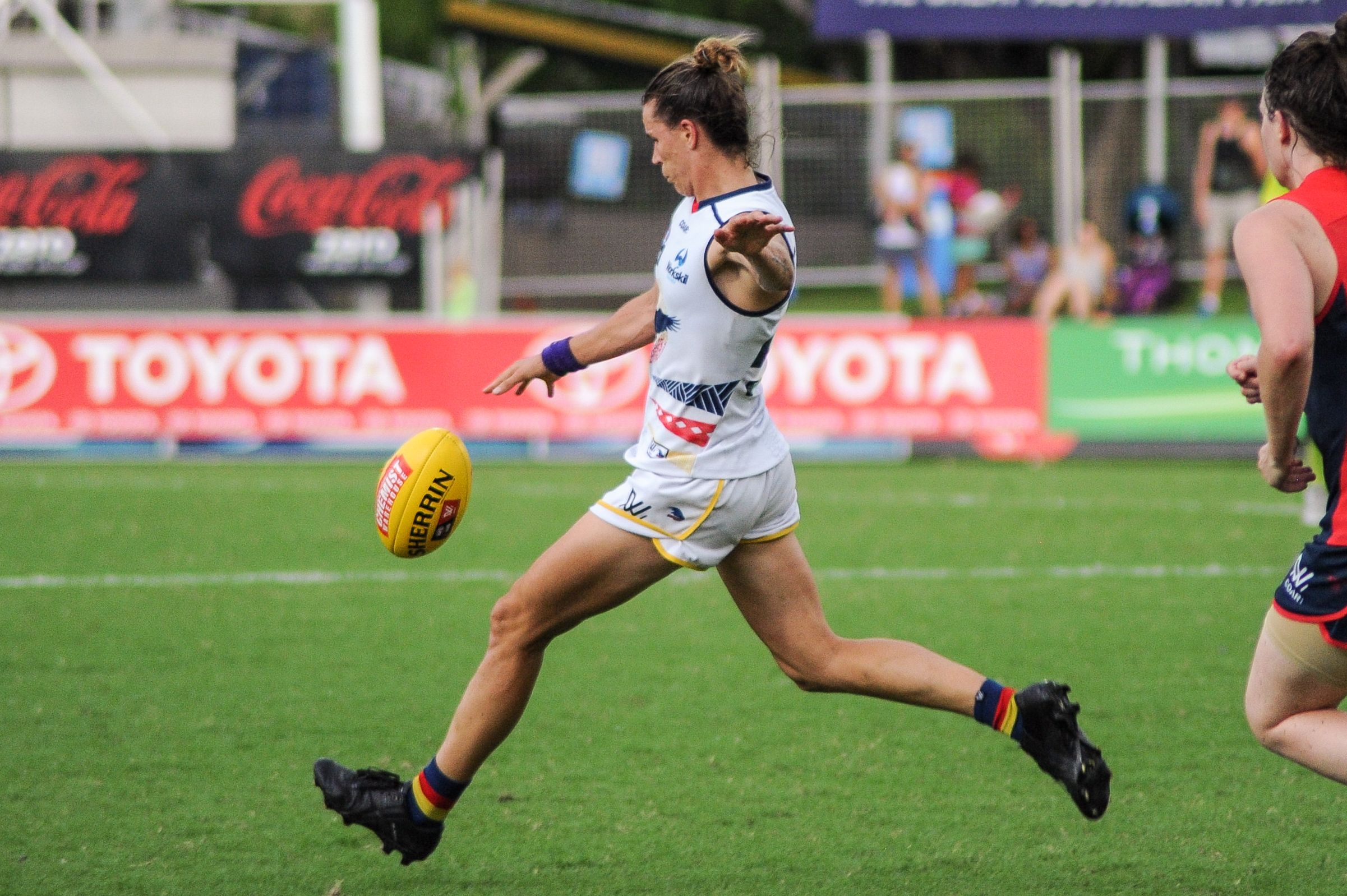 Chelsea Randall kicking during the AFL Women's round six match between Adelaide and Melbourne on 11 March 2017 at TIO Stadium in Darwin, Northern Territory